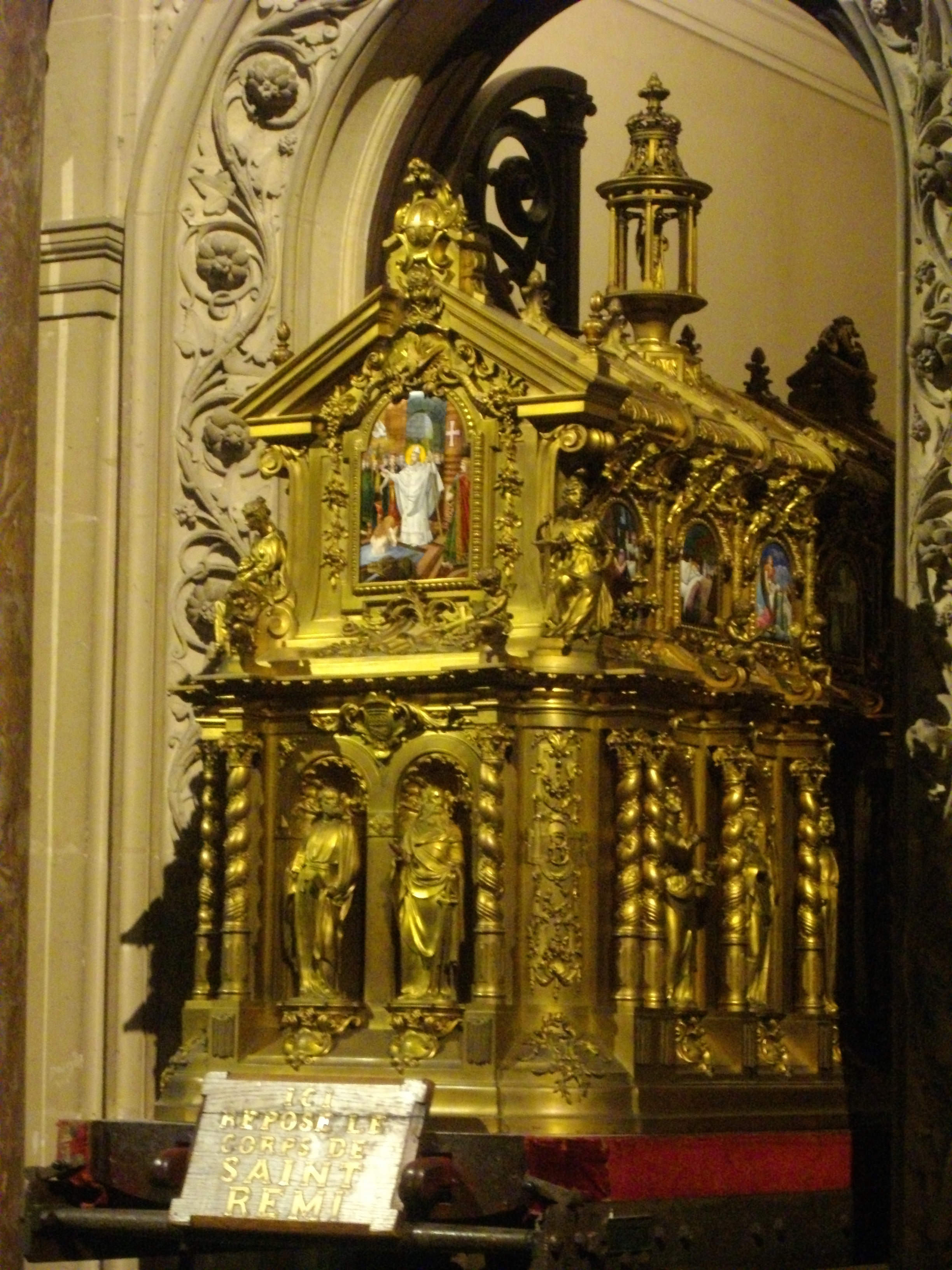 Saint Remigius tomb in Saint Remigius basilic of Reims (Marne, France) This object is indexed in the base Palissy, database of the French furniture patrimony of the French ministry of culture, under the references PM51001288 and châsse.